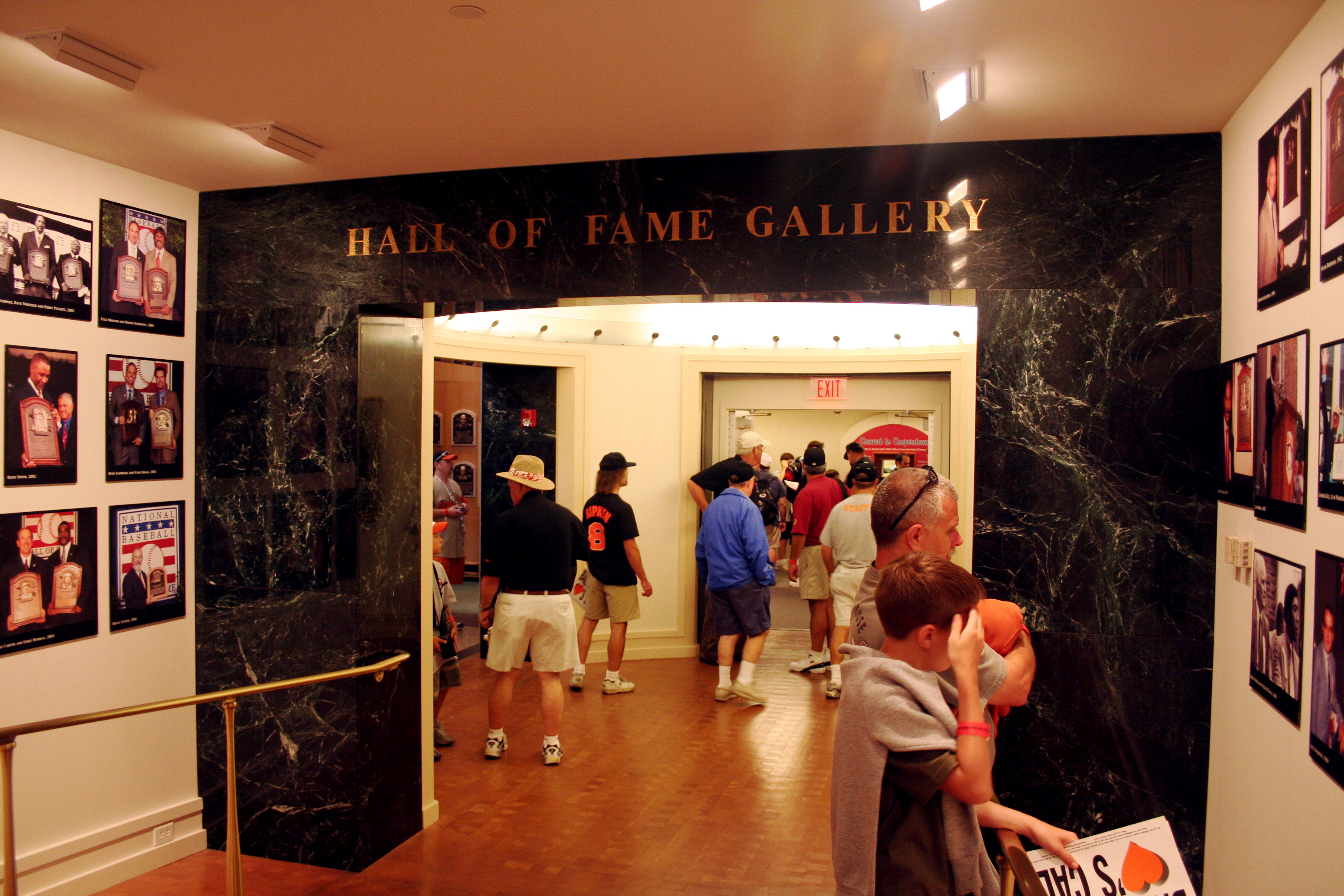 National Baseball Hall of Fame and Museum